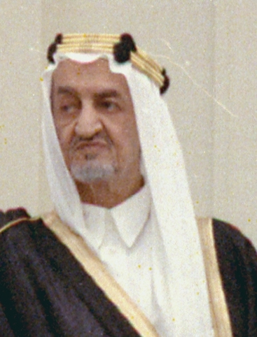 King Faisal Ibn Abd Al-Aziz of Saudi Arabia, President Nixon, Mrs Nixon. Arrival ceremony welcoming King Faisal of Saudi Arabia.